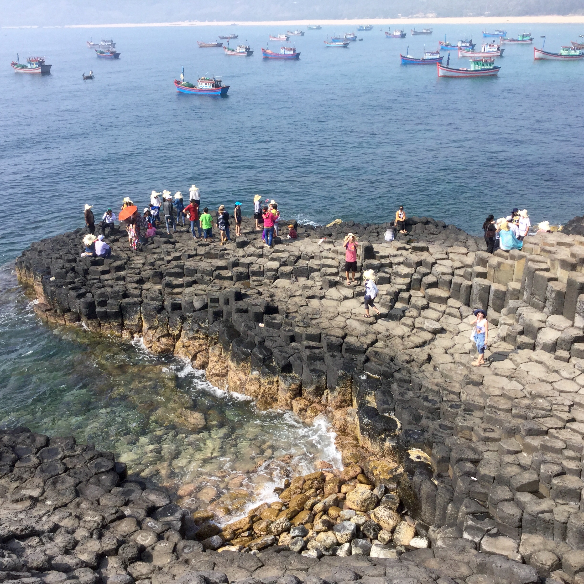 Gành Đá Điã. A seashore area in Phu Yen province featuring the only basalt rock columns in Vietnam.